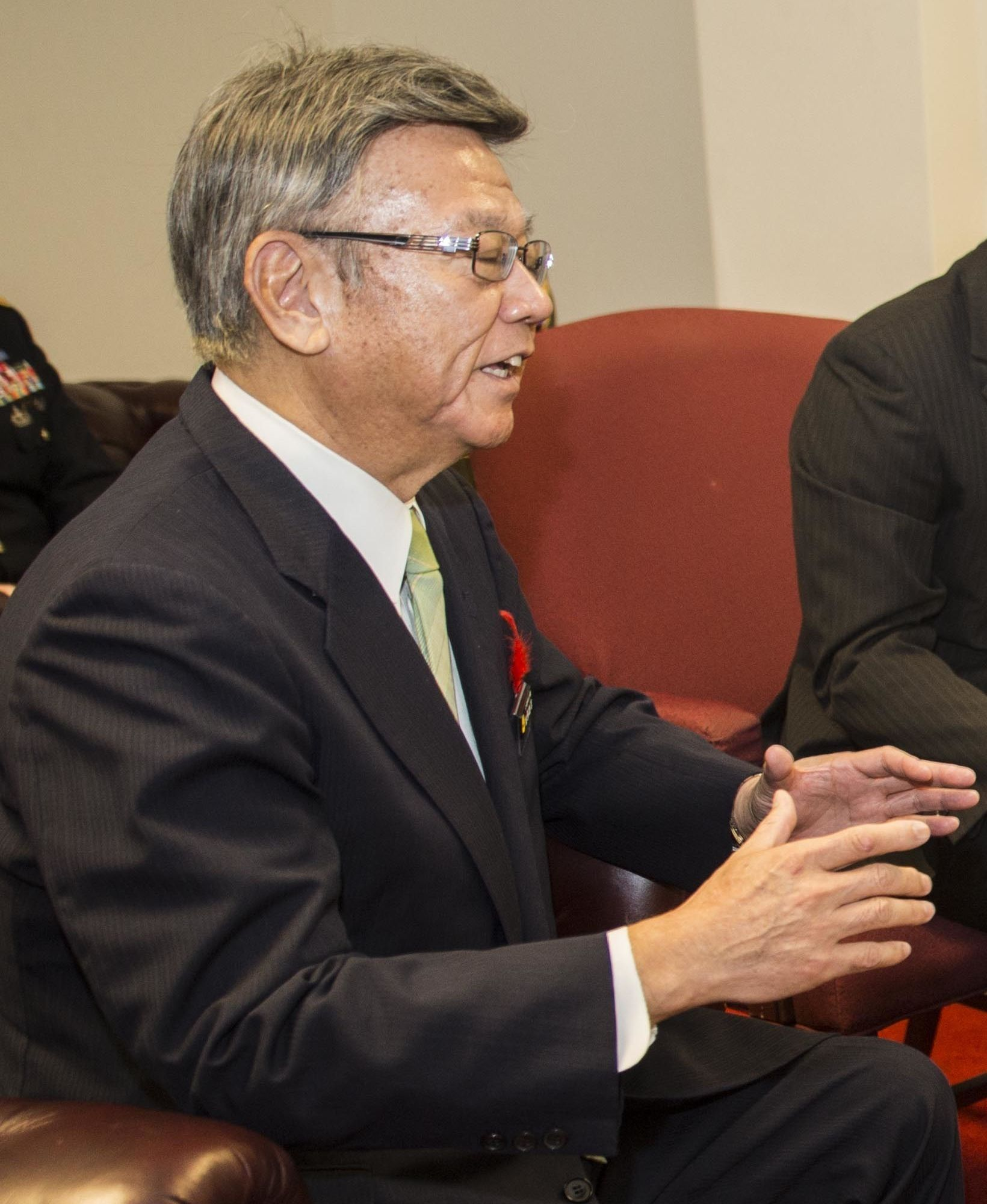 Takeshi Onaga, the 7th Governor of Okinawa prefecture, at Camp Foster.